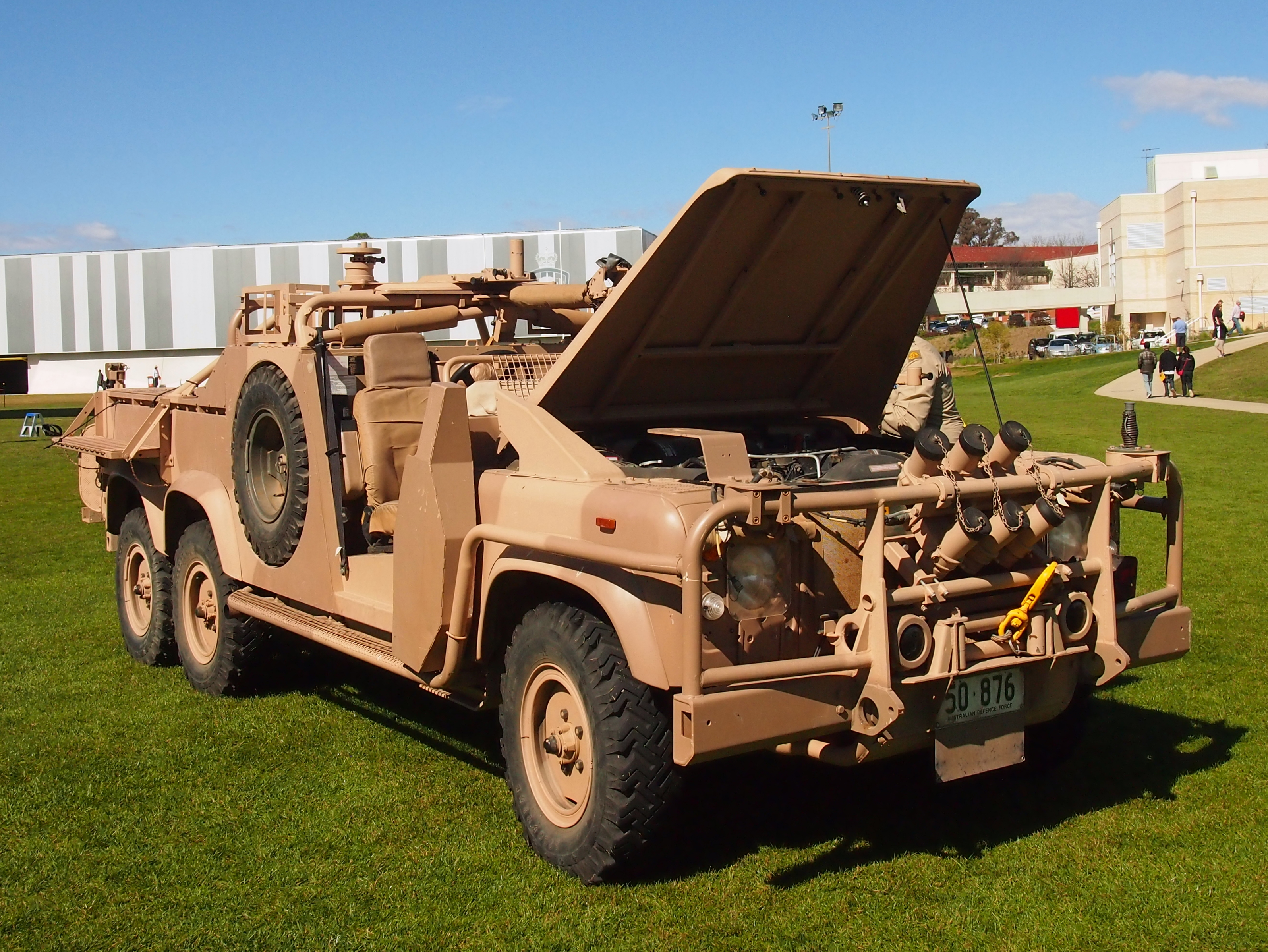 An Australian Army Long Range Patrol Vehicle on display at the 2013 Australian Defence Force Academy open day